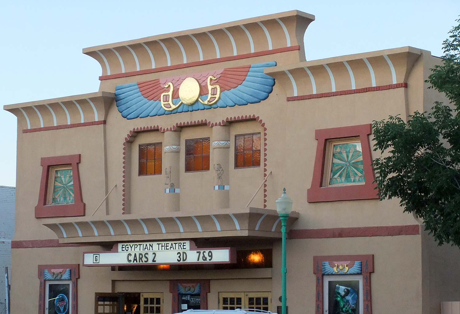 Egyptian Theater